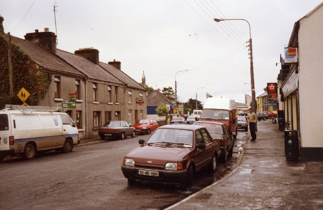 Oranmore, the main street